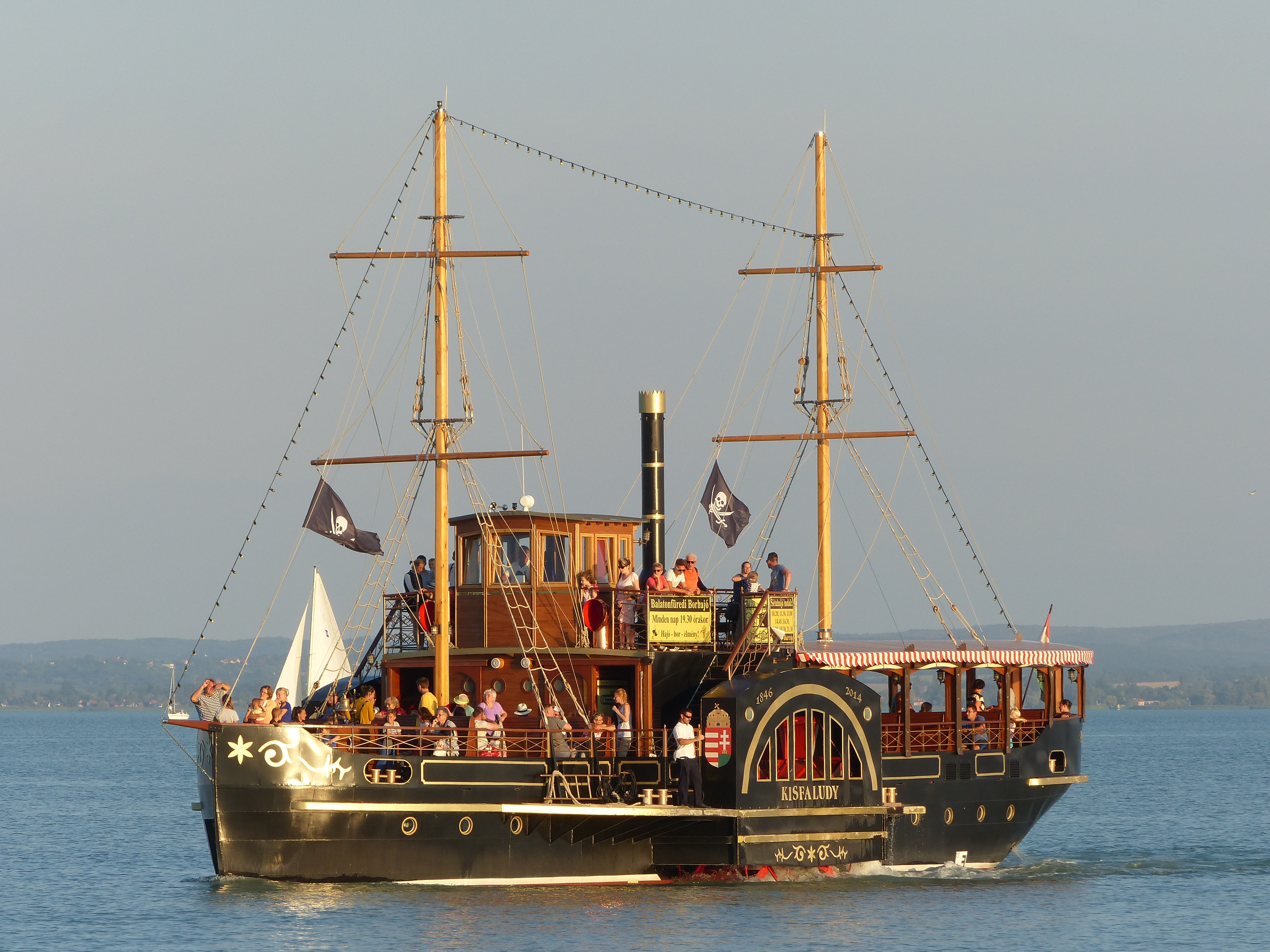 Taken on the 17th of August, 2016. Kisfaludy (ship). Bereczki Zsolt almádi vállalkozó építtette újra a Kisfaludyt, első balatoni gőzhajót. 2013 novemberében kezdte el az egykor gróf Széchenyi István szorgalmazására és közreműködésével 1846-ban megépített Kisfaludy gőzös másolatának elkészítését. az eredeti tervek hiányában az egykori gőzösről készített makett alapján klónozták, tervezték meg az új járművet. A füredi makett alapján egy hajótervező irodát bíztunk meg a tervek elkészítésével. Amikor ehhez megkaptuk a hatósági jóváhagyást, akkor elkészítették a gyártási terveket. A hajó a test kialakításától kezdve teljesen újonnan készült. Források